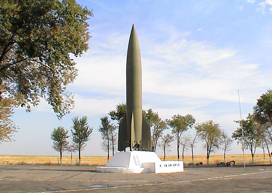 Model of R-1 rocket at Znamensk City, near Kapustin Yar missile range. An inscription on the base reads 18.10.1947, the date of the first successful launch of this missile.